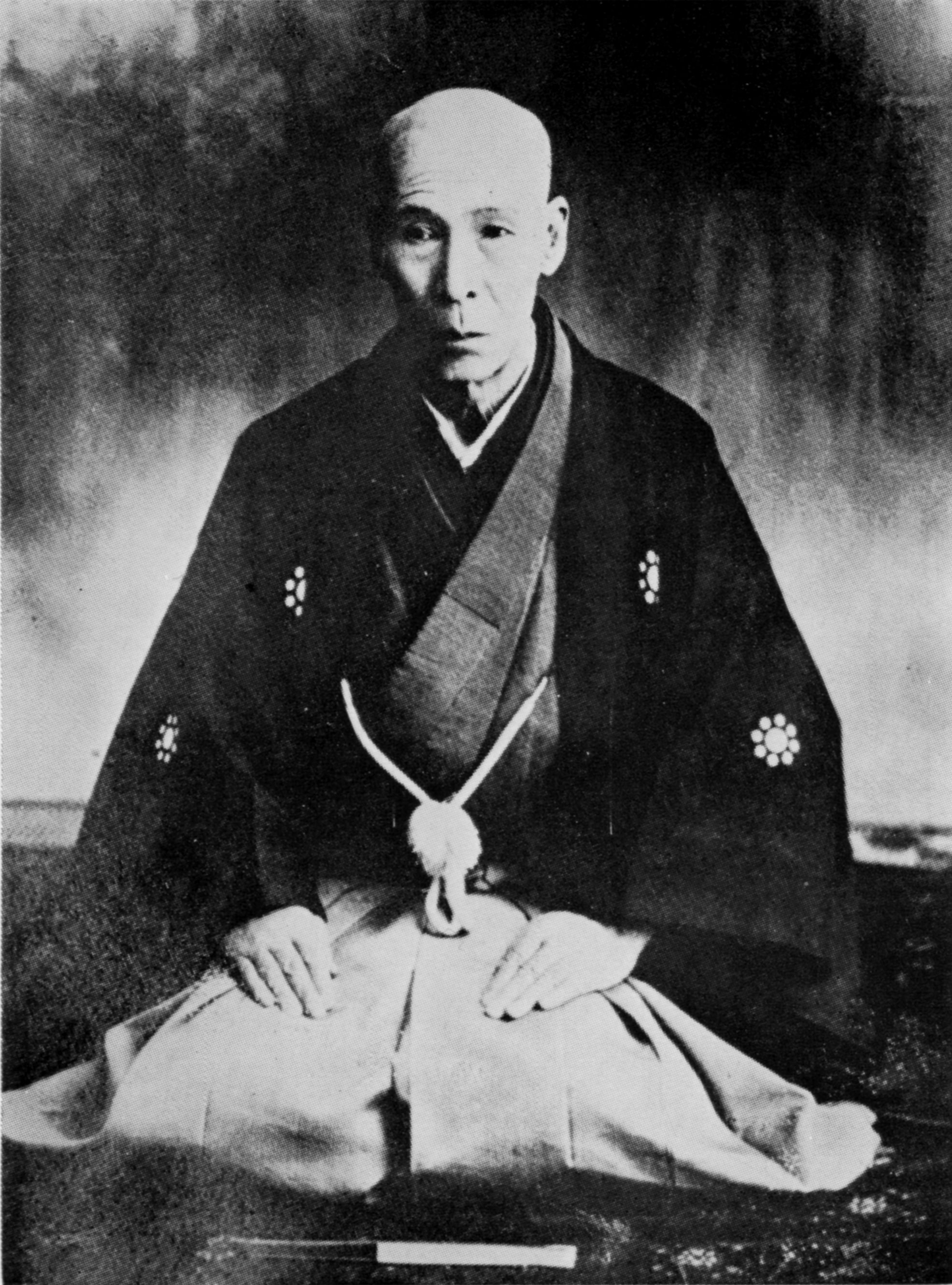 Japanese Noh actor SAKURAMA Banma(1835 - 1917)